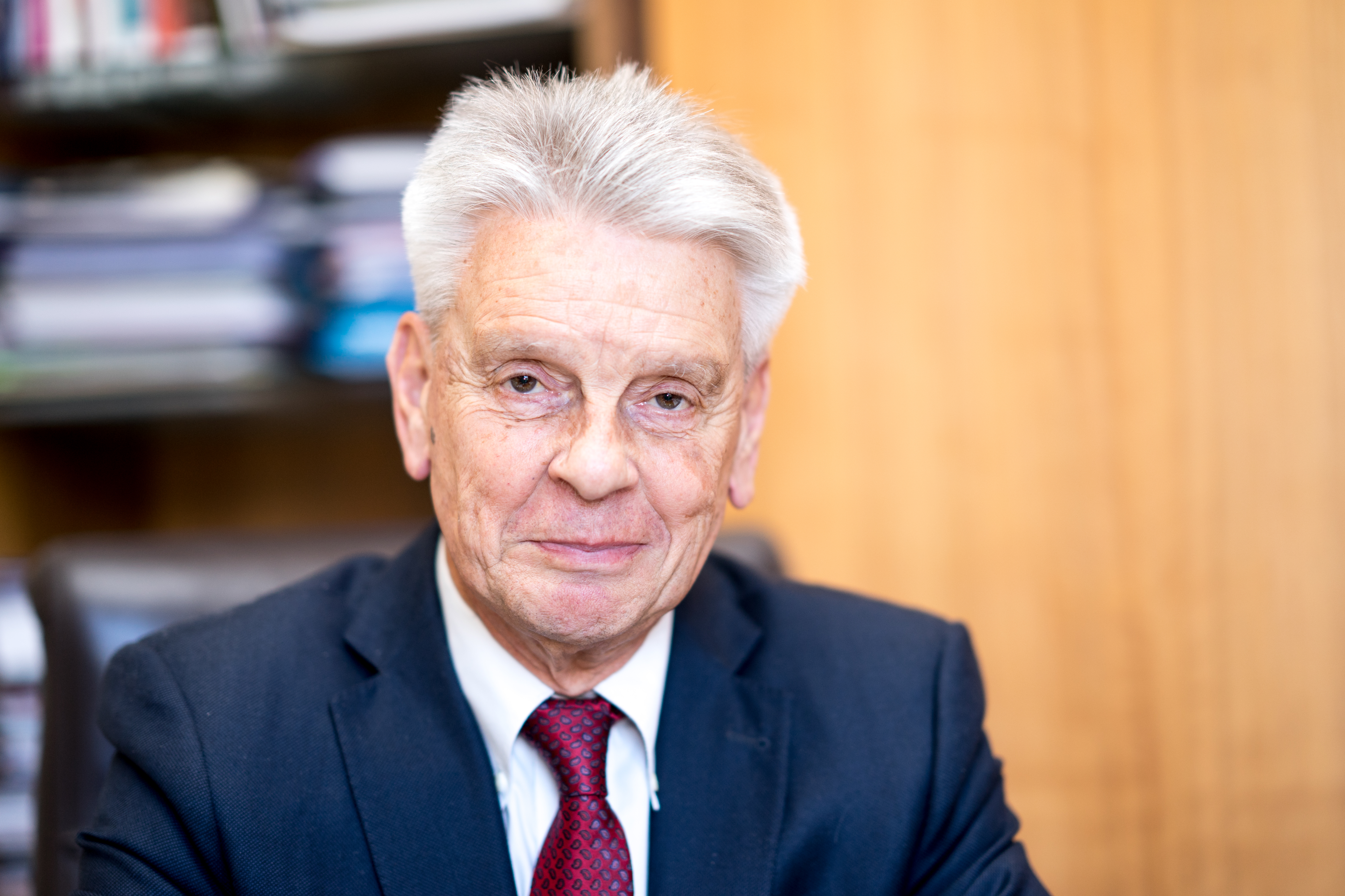 Alain Richard